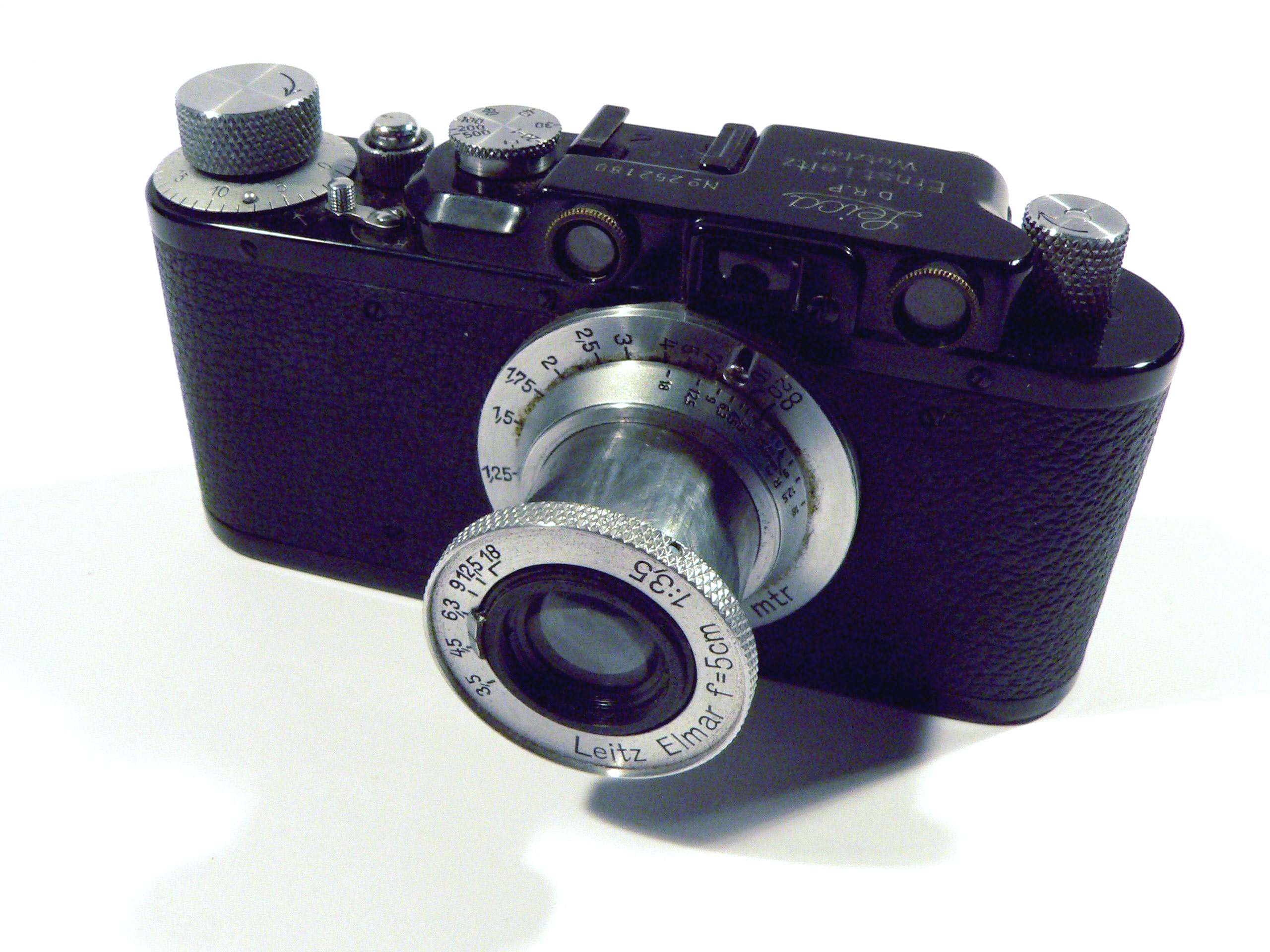 Leica II, a 135 film camera, 1932